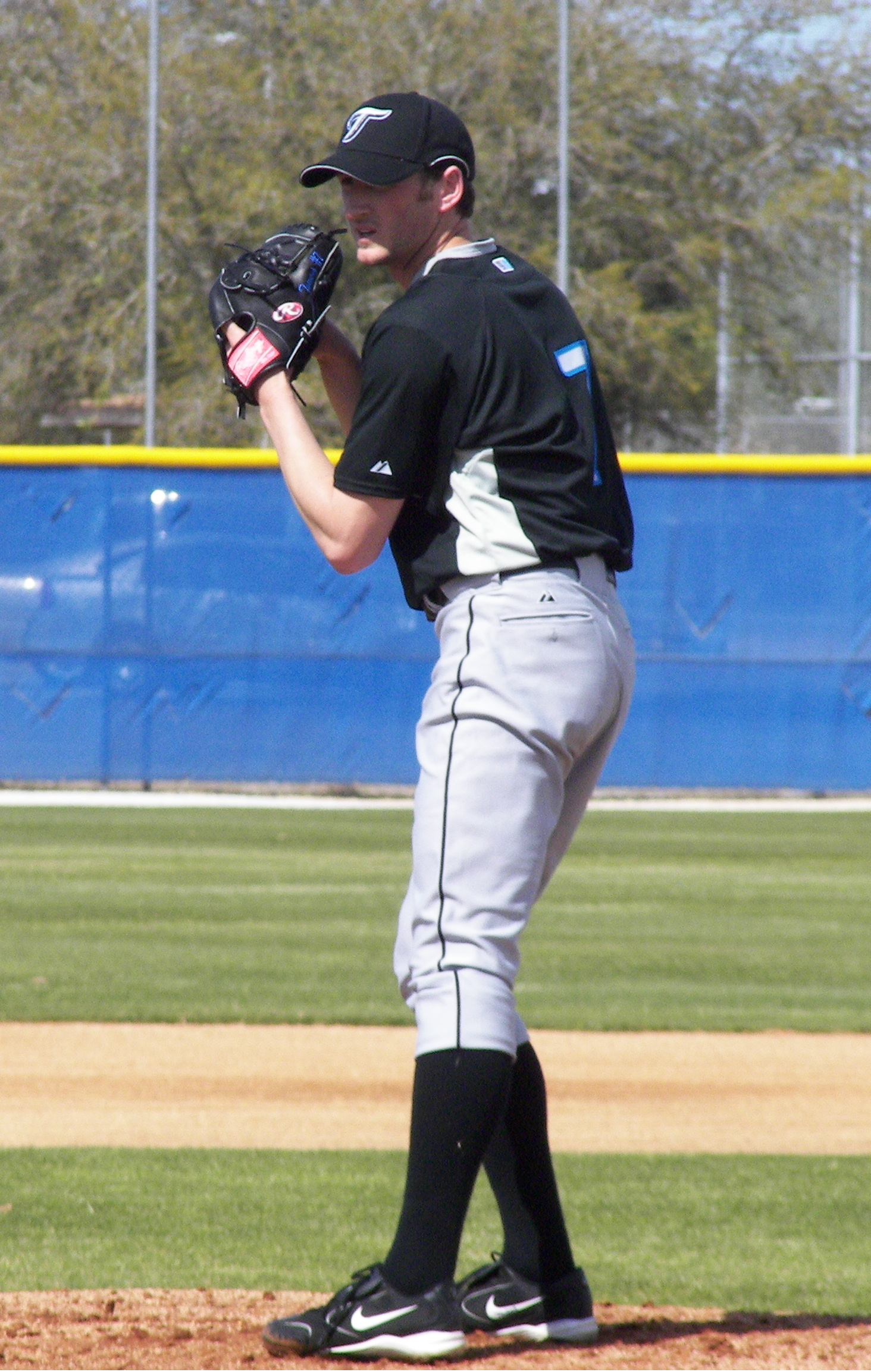 Toronto Blue Jays pitcher Josh Towers during a spring training workout at the Blue Jays' spring training complex in Dunedin, Florida.